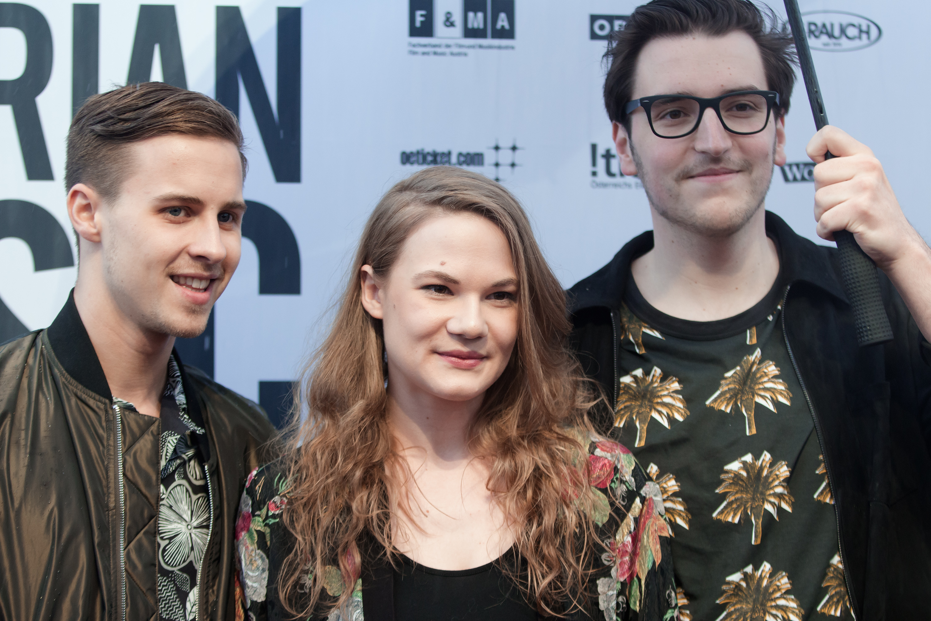 AVEC at the Amadeus Austrian Music Award 2017 at Volkstheater in Vienna.